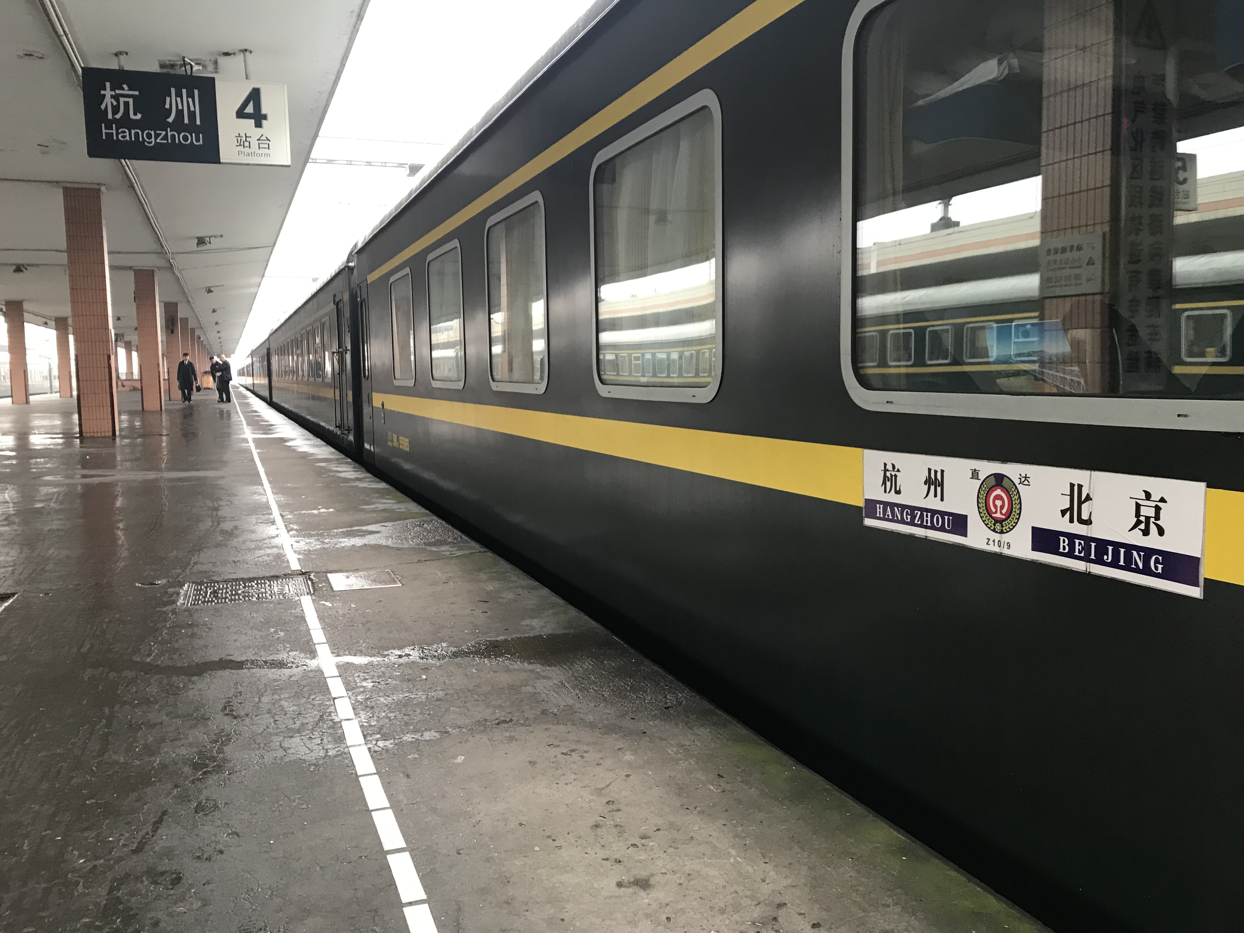 201812 Coaches of Z9 on the Platform 4 of Hangzhou Station